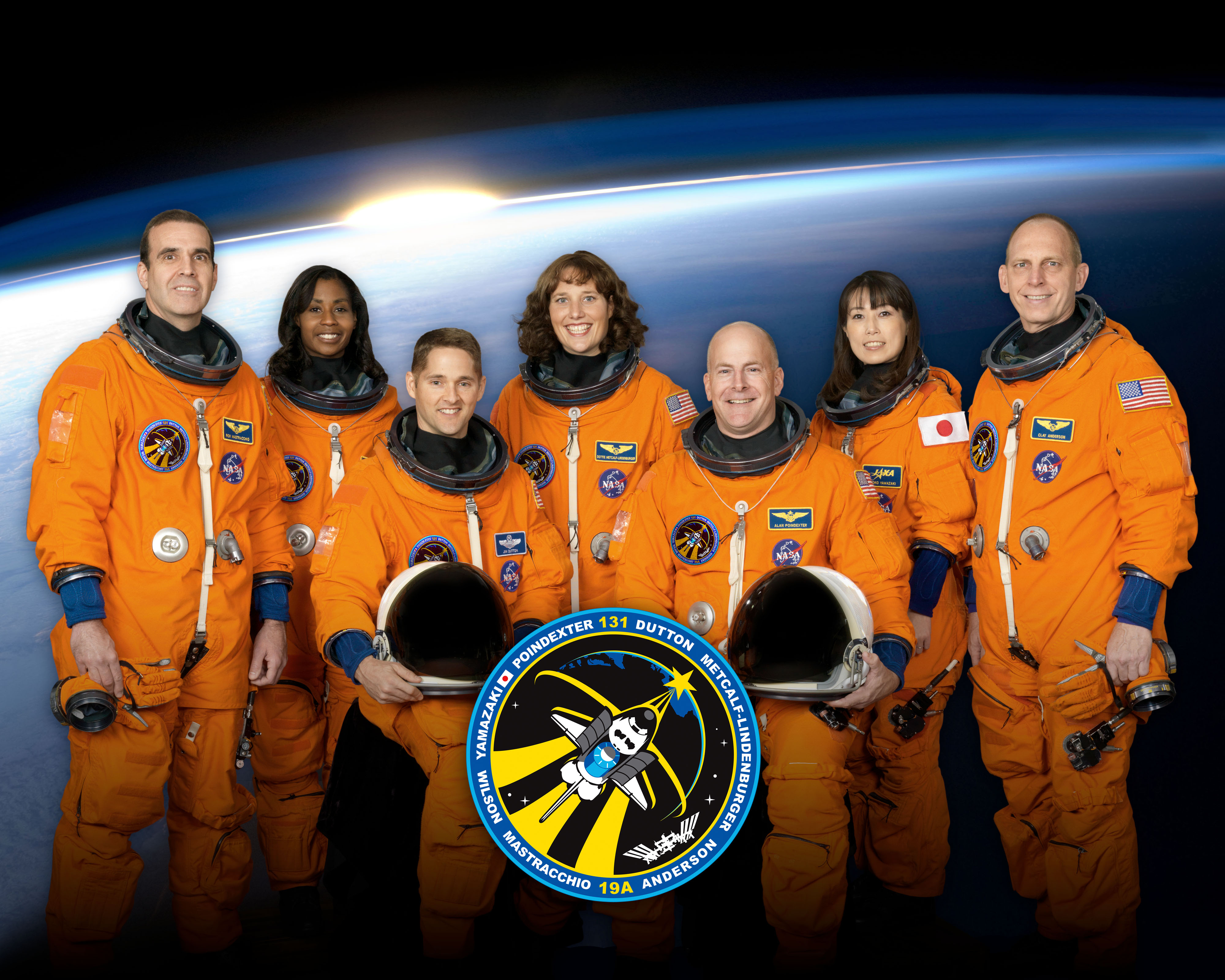 Attired in training versions of their shuttle launch and entry suits, these seven astronauts take a break from training to pose for the STS-131 crew portrait. Seated are NASA astronauts Alan Poindexter (right), commander; and James P. Dutton Jr., pilot. Pictured from the left (standing) are NASA astronauts Rick Mastracchio, Stephanie Wilson, Dorothy Metcalf-Lindenburger, Japan Aerospace Exploration Agency (JAXA) astronaut Naoko Yamazaki and NASA astronaut Clayton Anderson, all mission specialists.